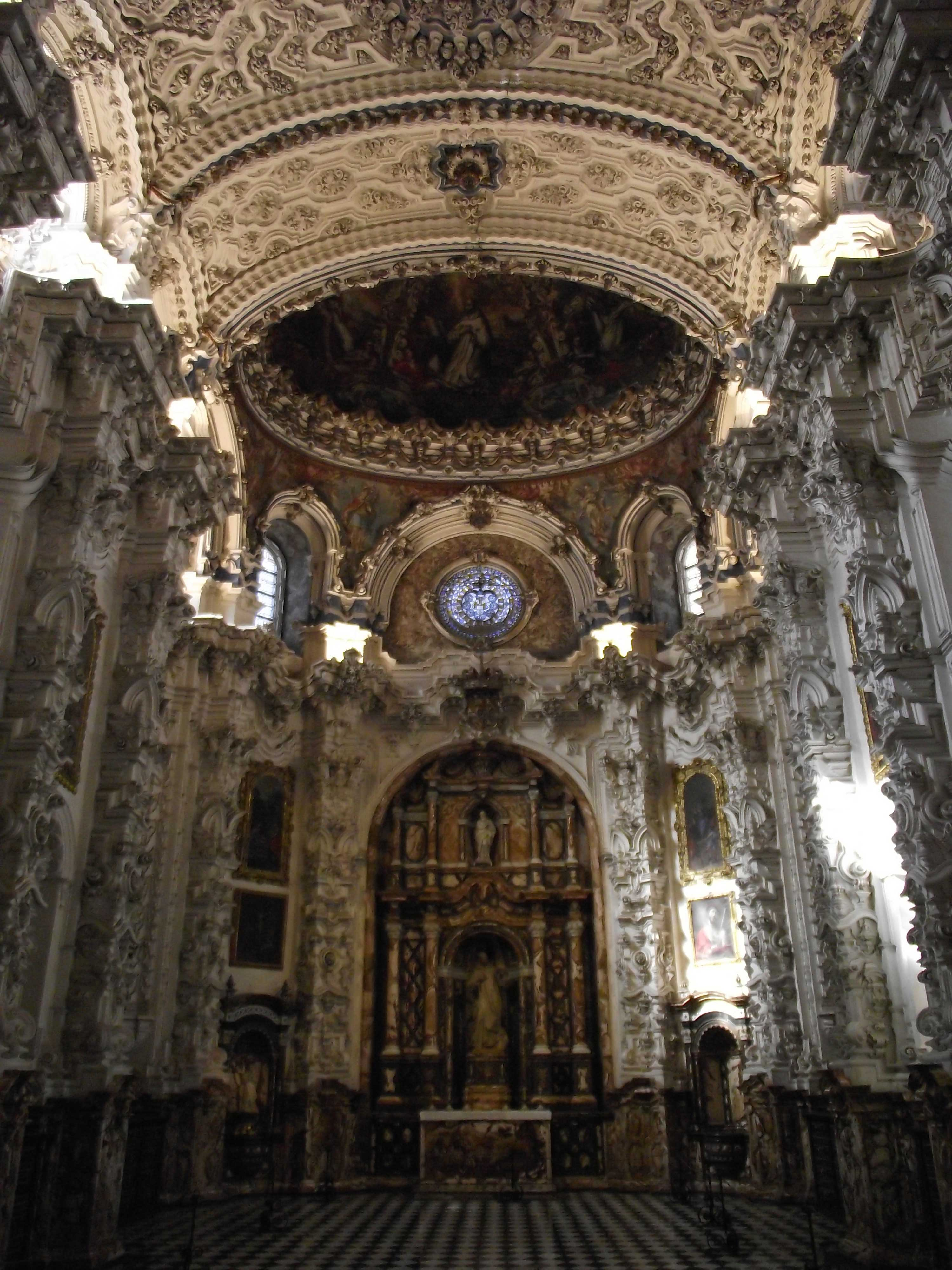 Charter house of Granada, Vestry, XVIII Century